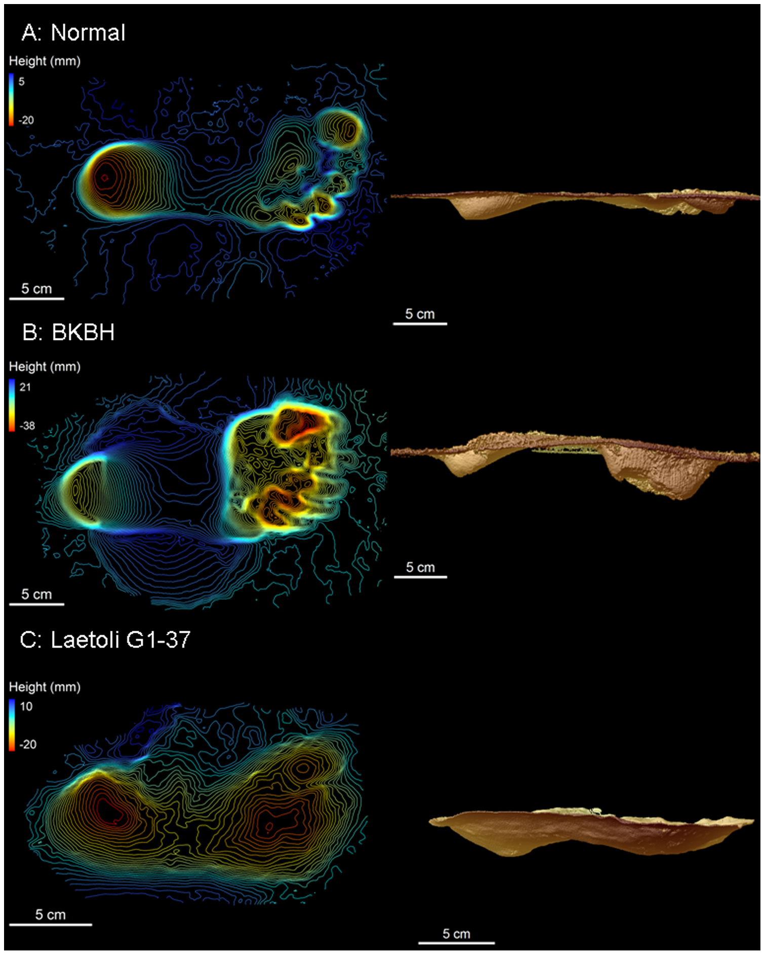 Three dimensional scans of experimental footprints and a Laetoli footprint Contours are 1 mm. A) Contour map of modern human footprint (Subject 6) walking with a normal, extended limb gait and side view of normal, extended limb footprint. B) Contour map of modern human footprint (Subject 6) walking with a BKBH gait and side view of BKBH print. C) Contour map of Laetoli footprint (G1-37) and side view of Laetoli footprint (G1-37). Note the difference in heel and toe depths between modern humans walking with extended and BKBH gaits. Laetoli has similar toe relative to heel depths as the modern human extended limb print.